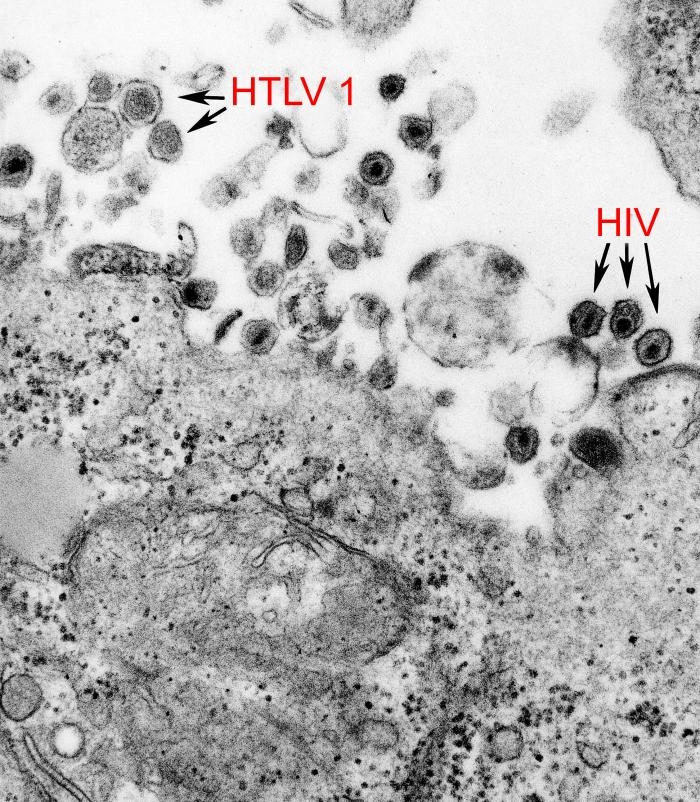 This image revealed the presence of both the human T-cell leukemia type-1 virus (HTLV-1), (also known as the human T lymphotropic virus type-1 virus), and the human immunodeficiency virus (HIV). Human T-cell leukemia virus type-1 (HTLV-1), a human oncoretrovirus, is the etiologic agent of adult T-cell leukemia, and of tropical spastic paraparesis/HTLV-1–associated myelopathy. Two closely related retroviruses, HIV-1 and HIV-2, have been identified as causing AIDS in different geographic regions. HIV-1 causes most cases of AIDS in the U.S., with only a few cases of HIV-2 having been found in the U.S. Epidemiologically, HIV-2 has been found to be mostly an infection of persons from West Africa.